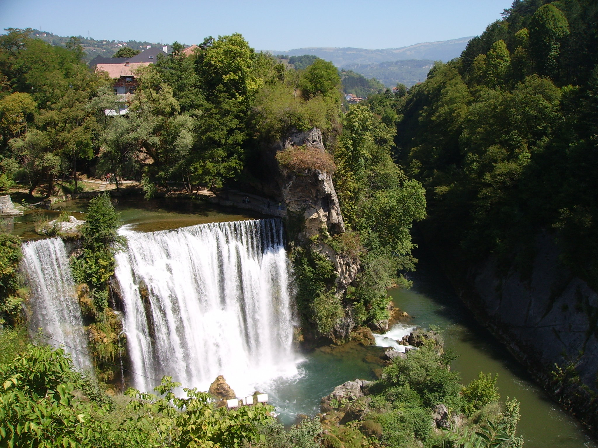 Waterfall of Pliva River in Jajce, BiH.